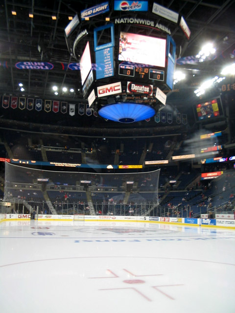 Nationwide Arena, Columbus, Ohio